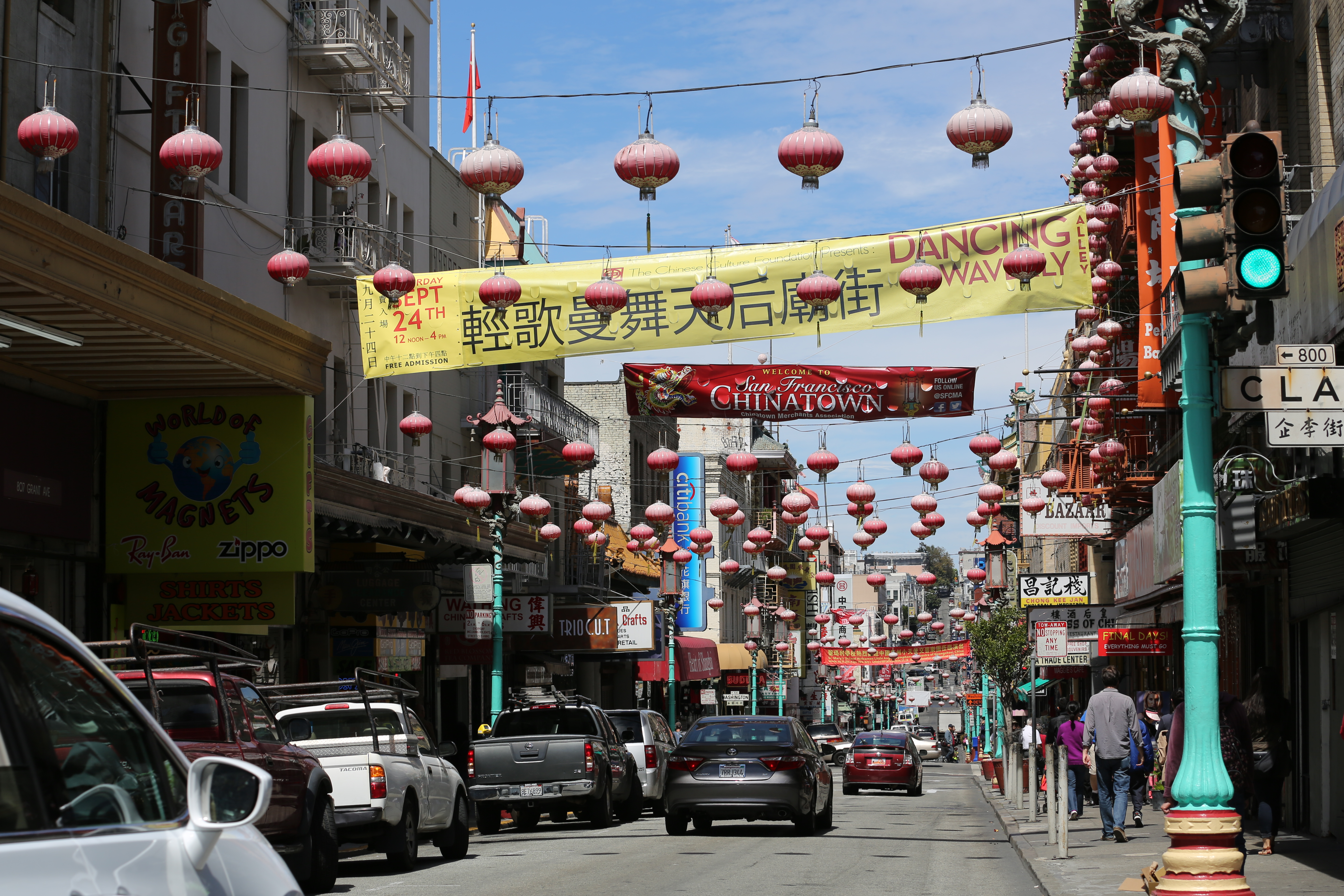 Street in Chinatown, San Francisco (TK3)